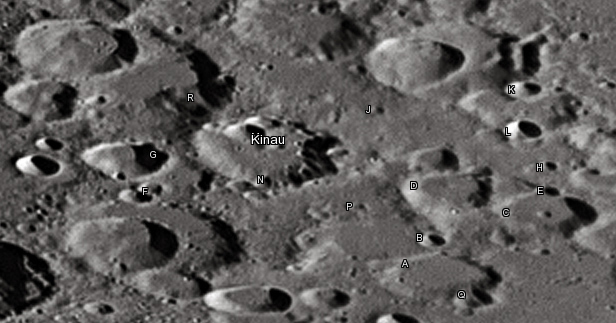 Kinau lunar crater as seen from Earth with satellite craters labeled